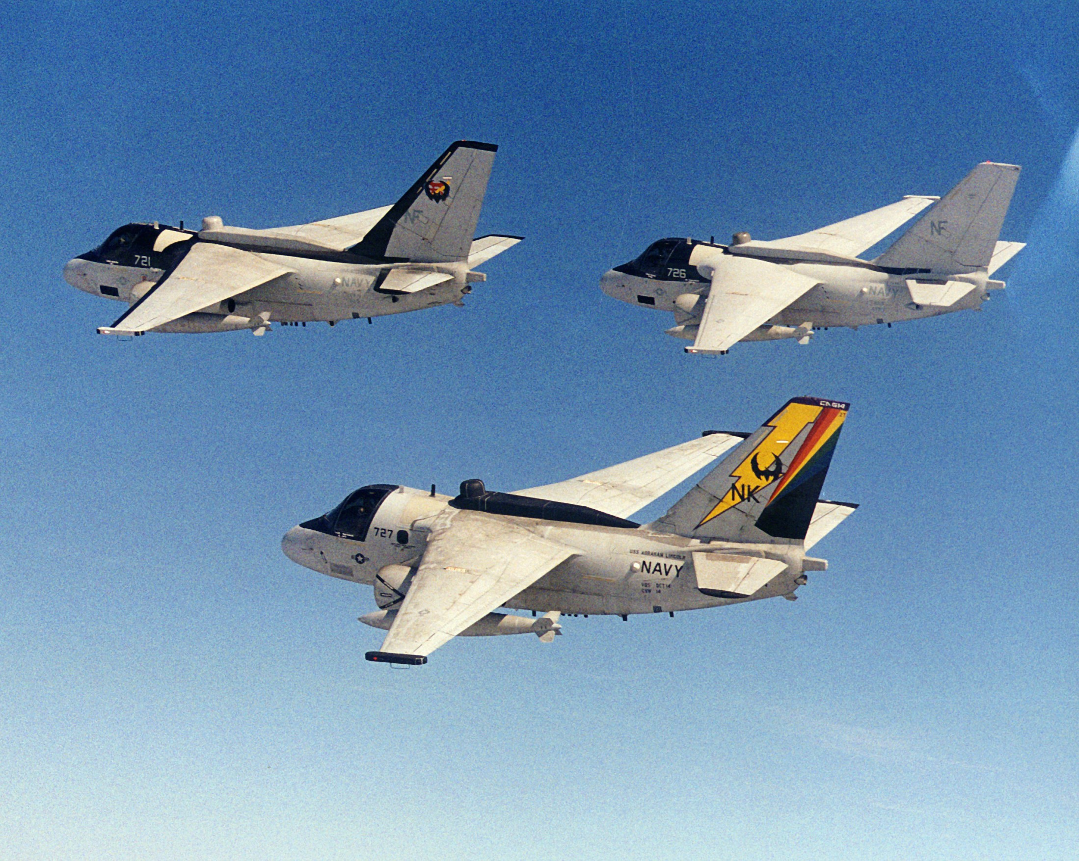 Three U.S. Navy Lockheed ES-3A Shadows of fleet air reconnaissance squadron VQ-5 Sea Shadows pictured in flight over Southern California. The aircraft in the foreground is painted in colorful CAG markings and was assigned to Detachement 14, Carrier Air Wing 14 (CVW-14), on board the aircraft carrier USS Abraham Lincoln (CVN-72). The other pair of aircraft were assigned to Detachment 5, CVW-5, on board the USS Kitty Hawk (CV-63).